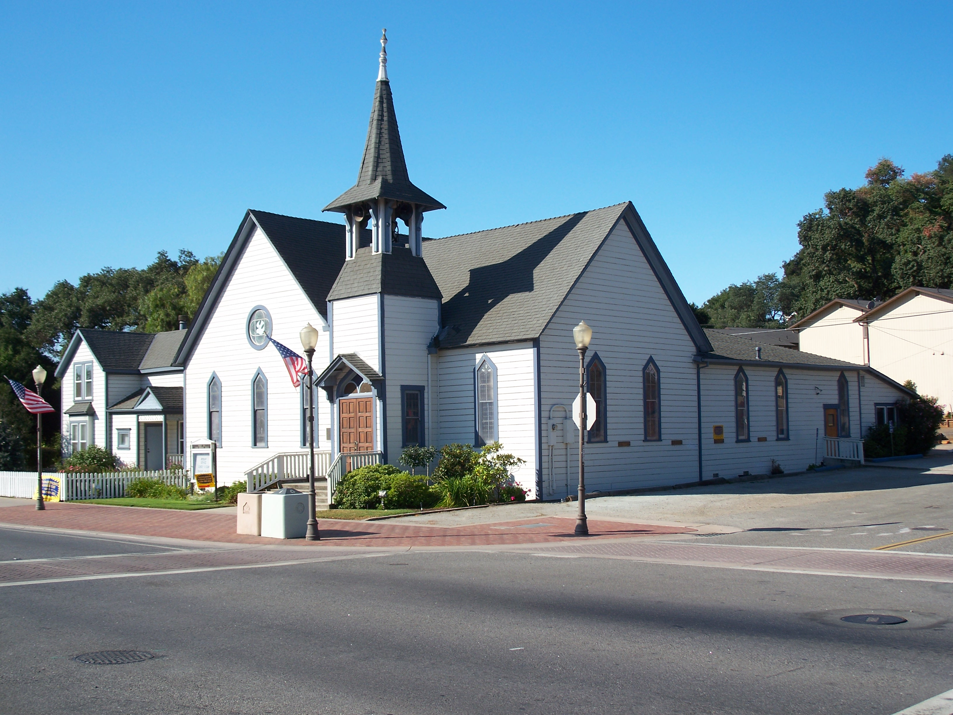 United Methodist Church. Morgan Hill, California, USA.